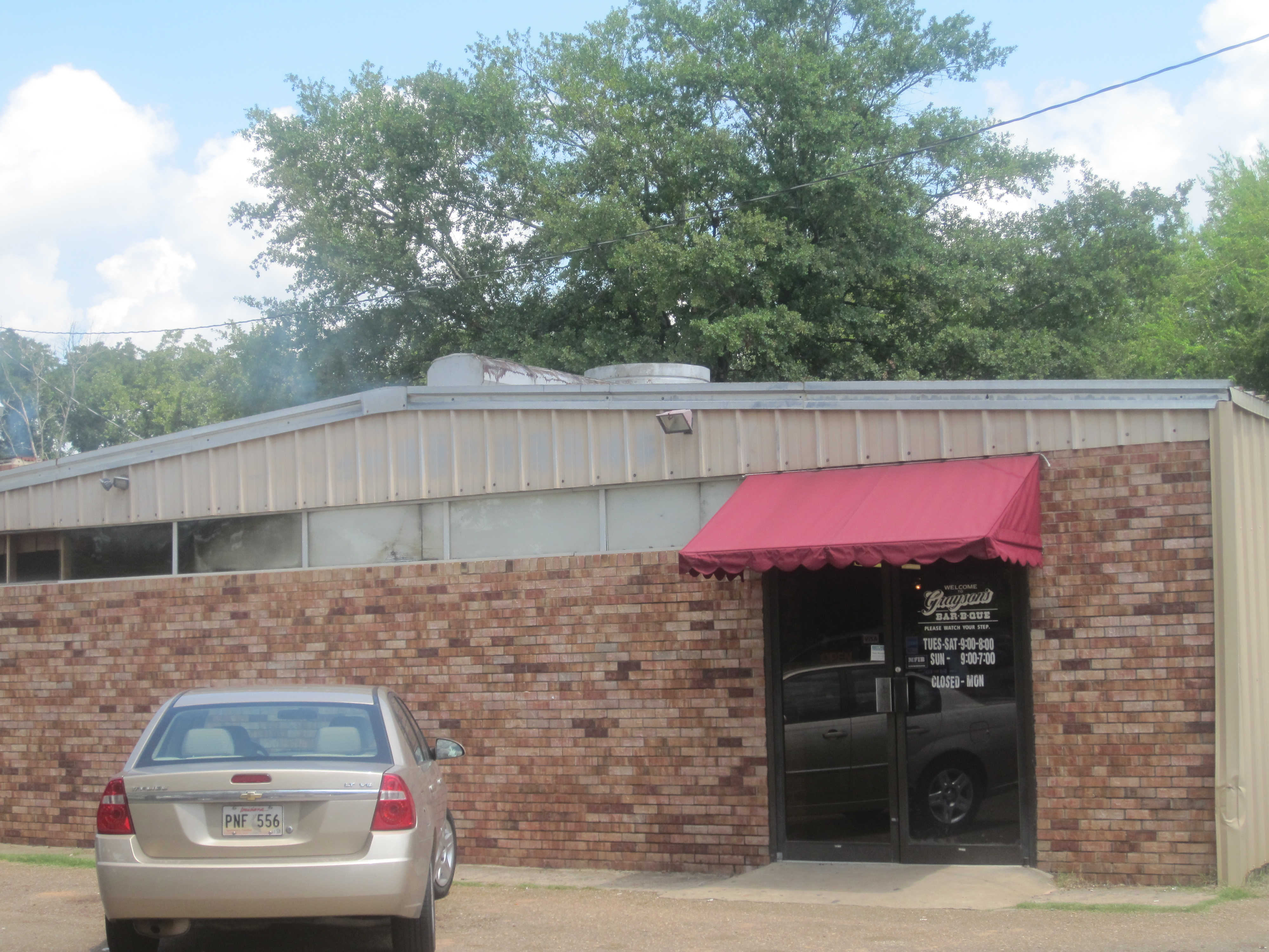 Grayson's Barbeque in Clarence, LA